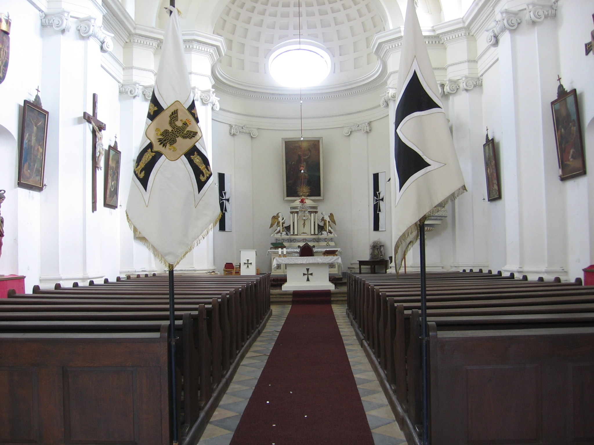 The Interior of St. Augustin Church by Castle Sovinec in Moravian-Silesian Region (Czech Republic)